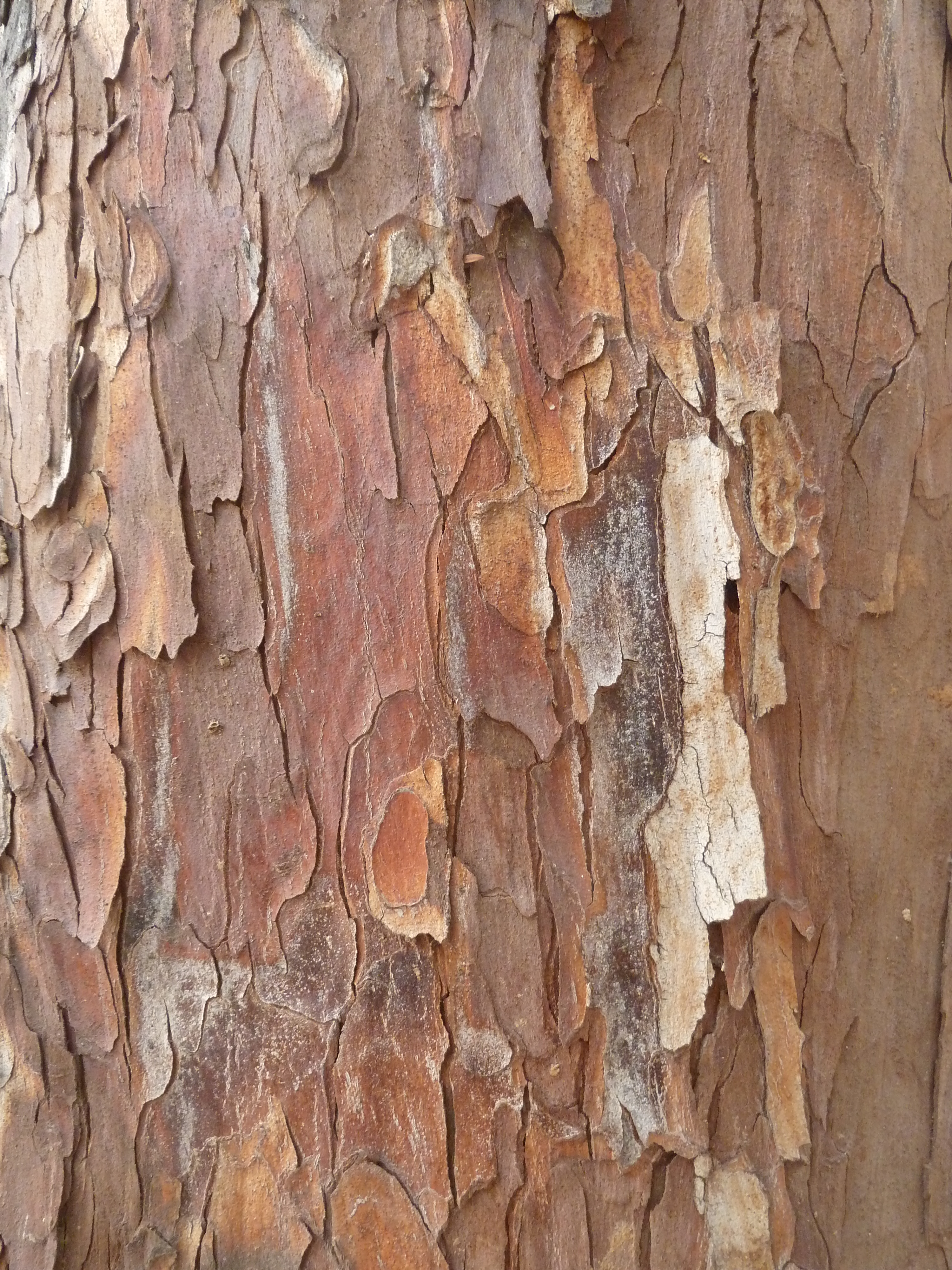 Bark texture of a young Outeniqua yellowwood, growing at the entrance to the Iranian embassy in Pretoria